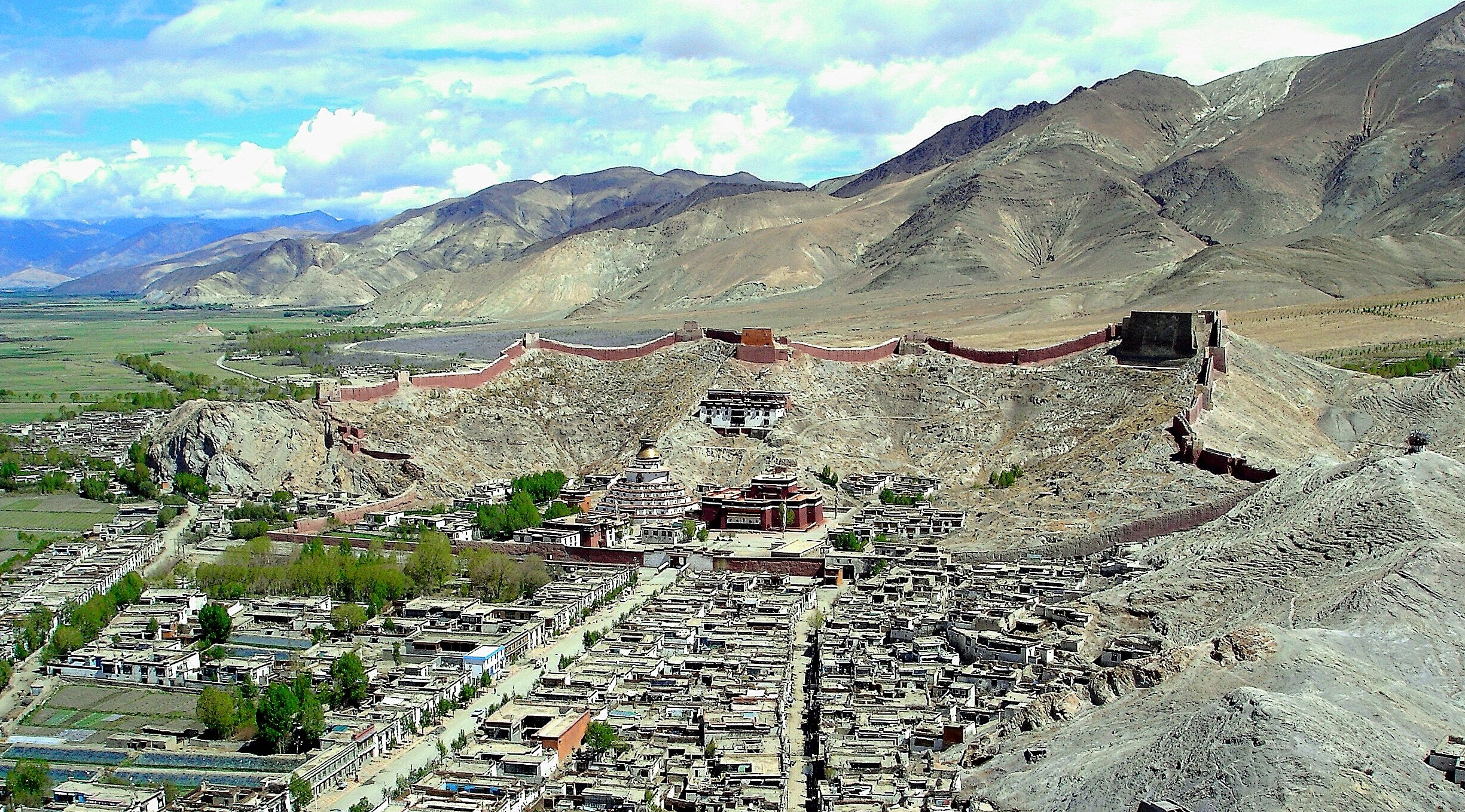 View to the Pelkor Chode Monastery from the Gyantse dzong (Tibet Autonomous Region, People's Republic of China).